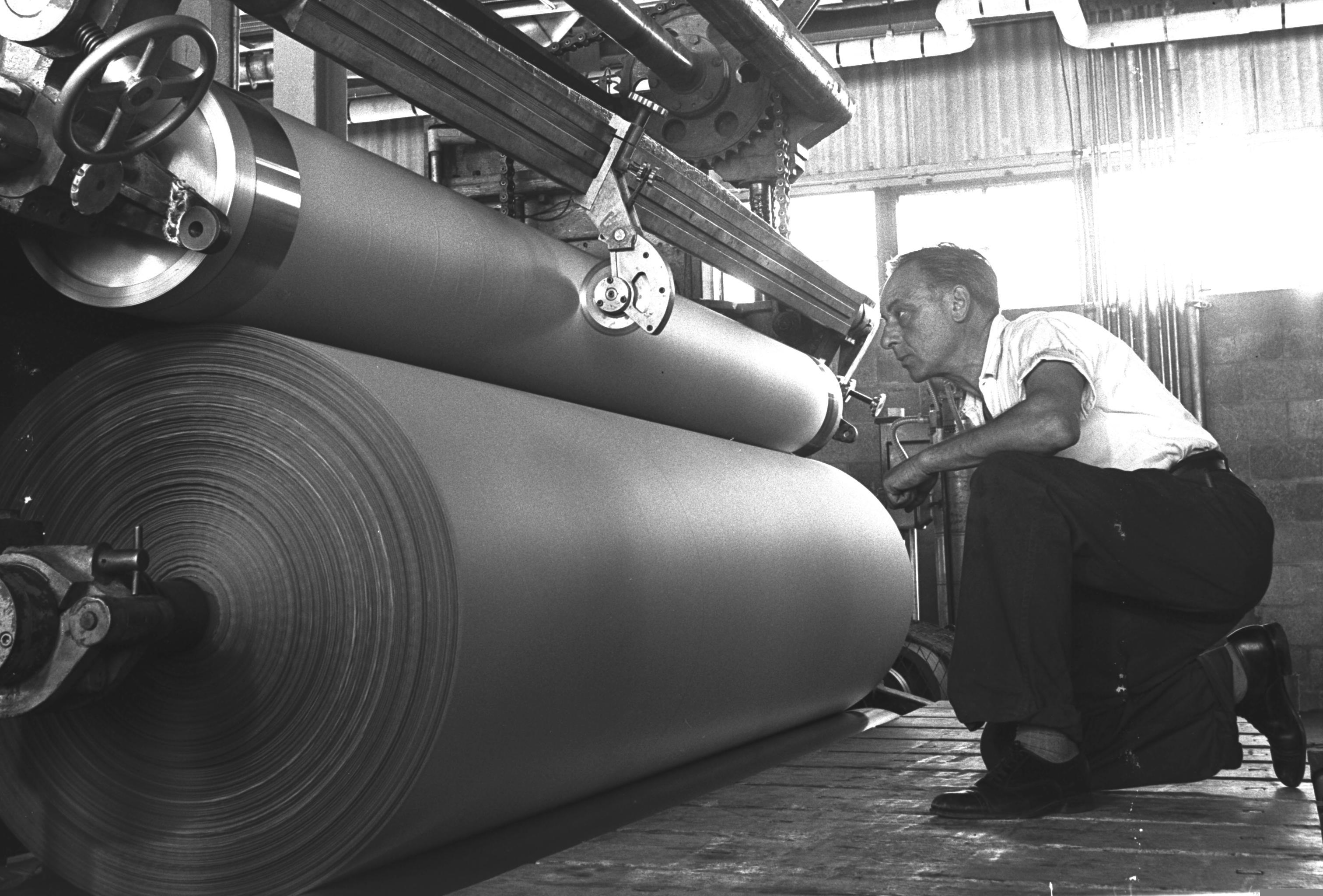 The paper making machine at the American Israeli paper mill in Hadera.